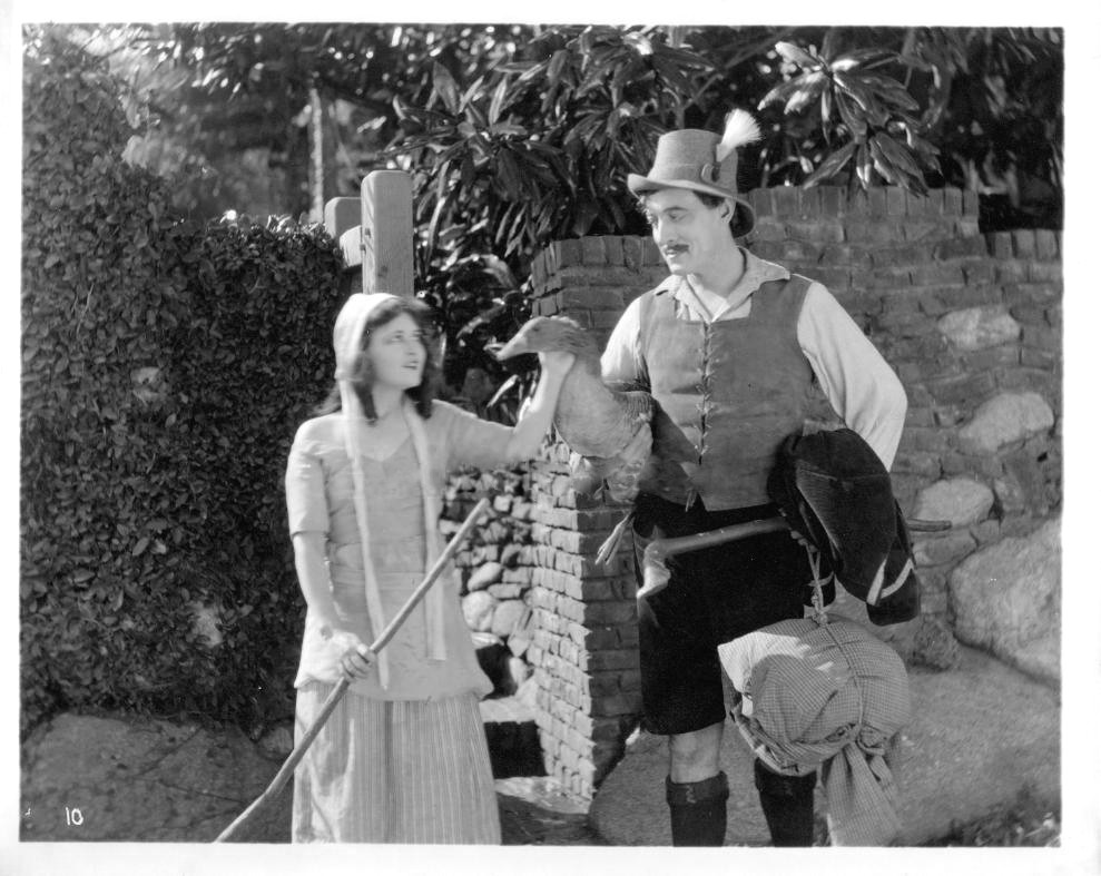 The Goose Girl publicity photo (modern digital watermark muted)